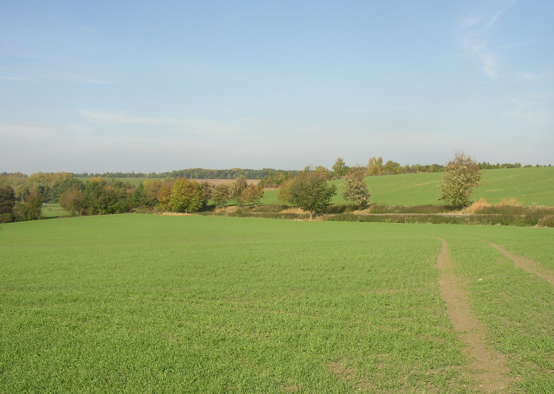 Žákova skála (a geological and paleontological site) near Běloky, Kladno District, Czech Republic. General view of its surroundings from SSE.